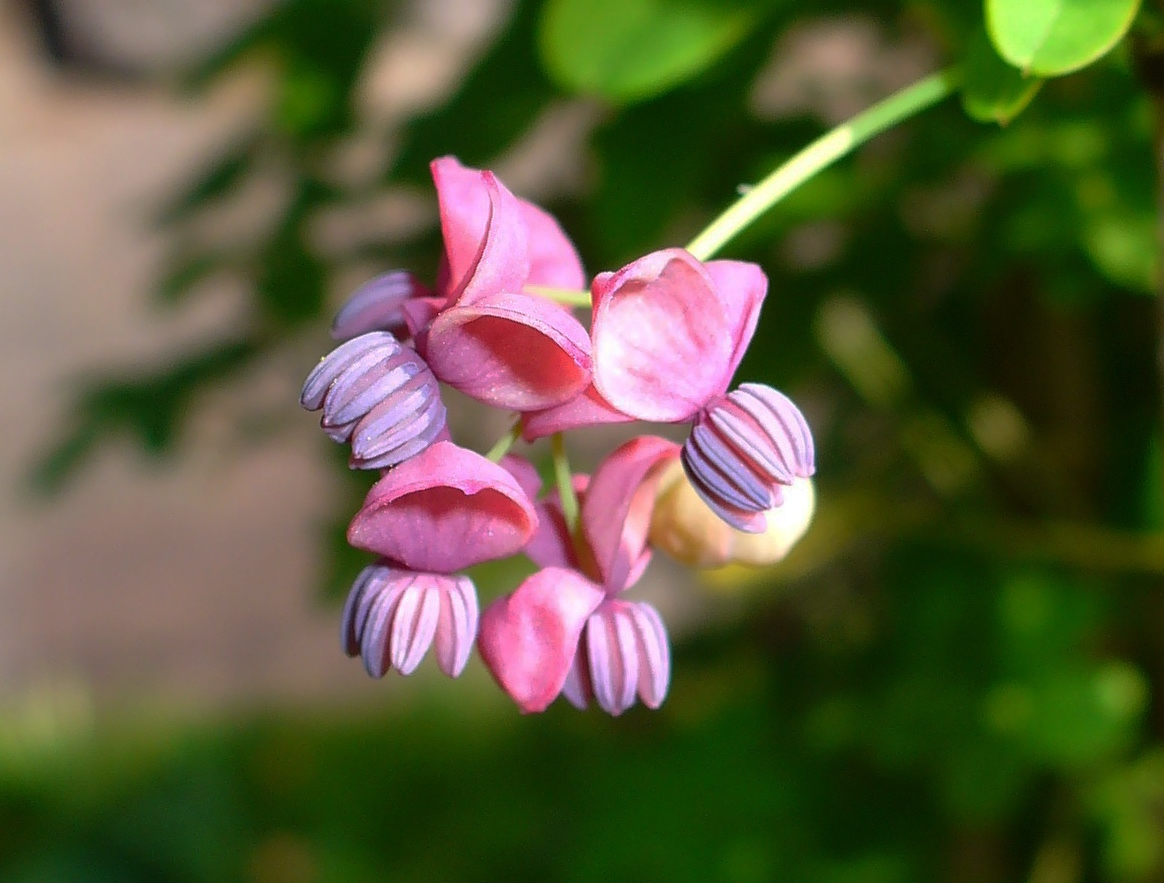 Chocolate Vine; Male flower; Botanical Garden Karlsruhe Institute of Technology, Karlsruhe, Germany.